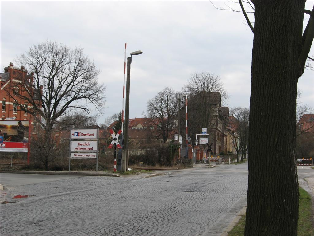 level-crossing at Quedlinburg: Frachtstraße